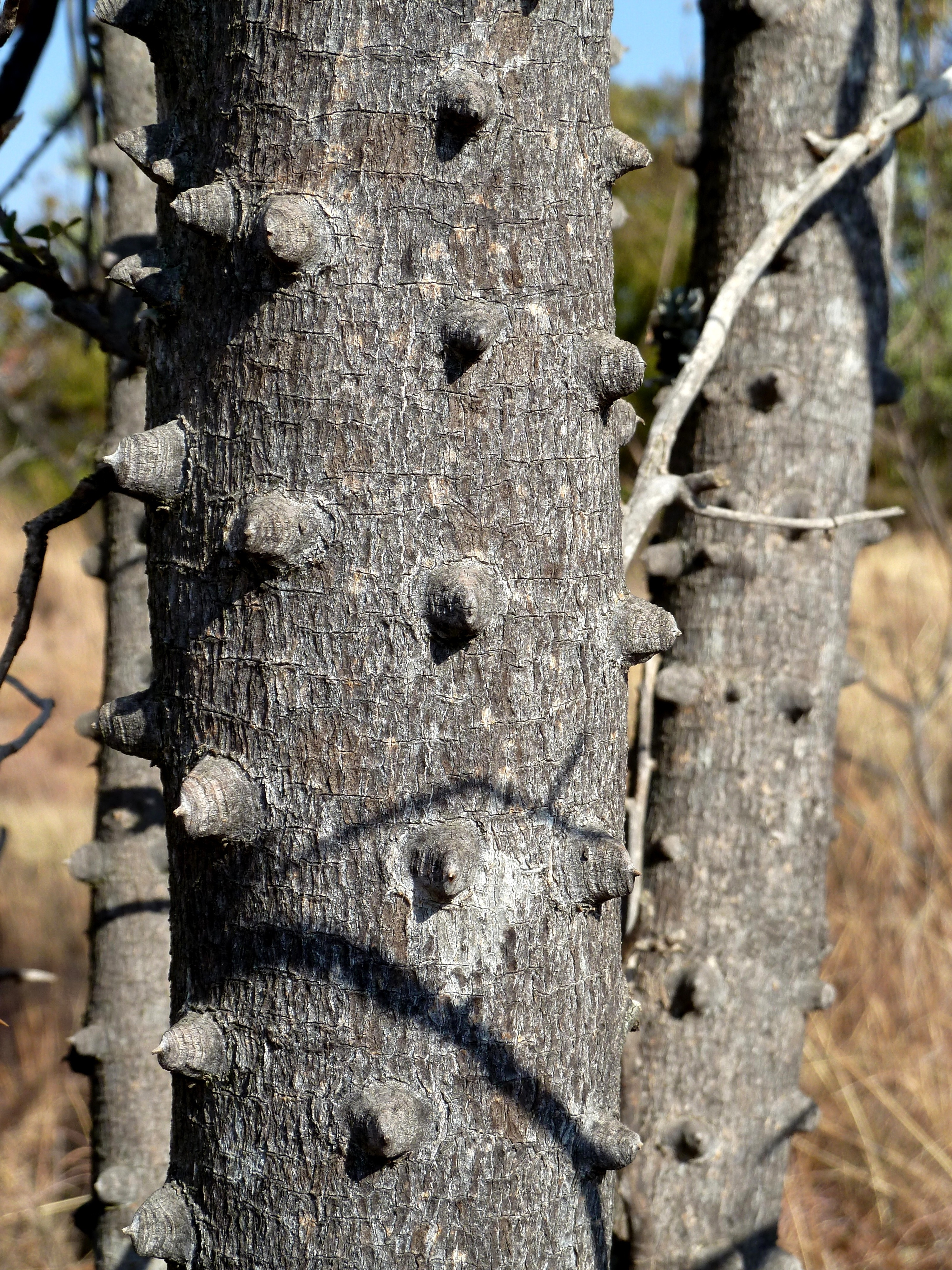 Trunk of a Small Knobwood in the Waterberg, South Africa